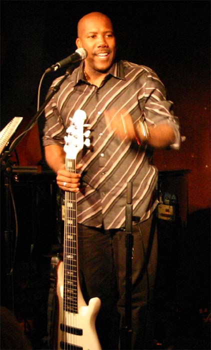 This is a photo of Nathan East I took in 2005 that I am putting into Public Domain.